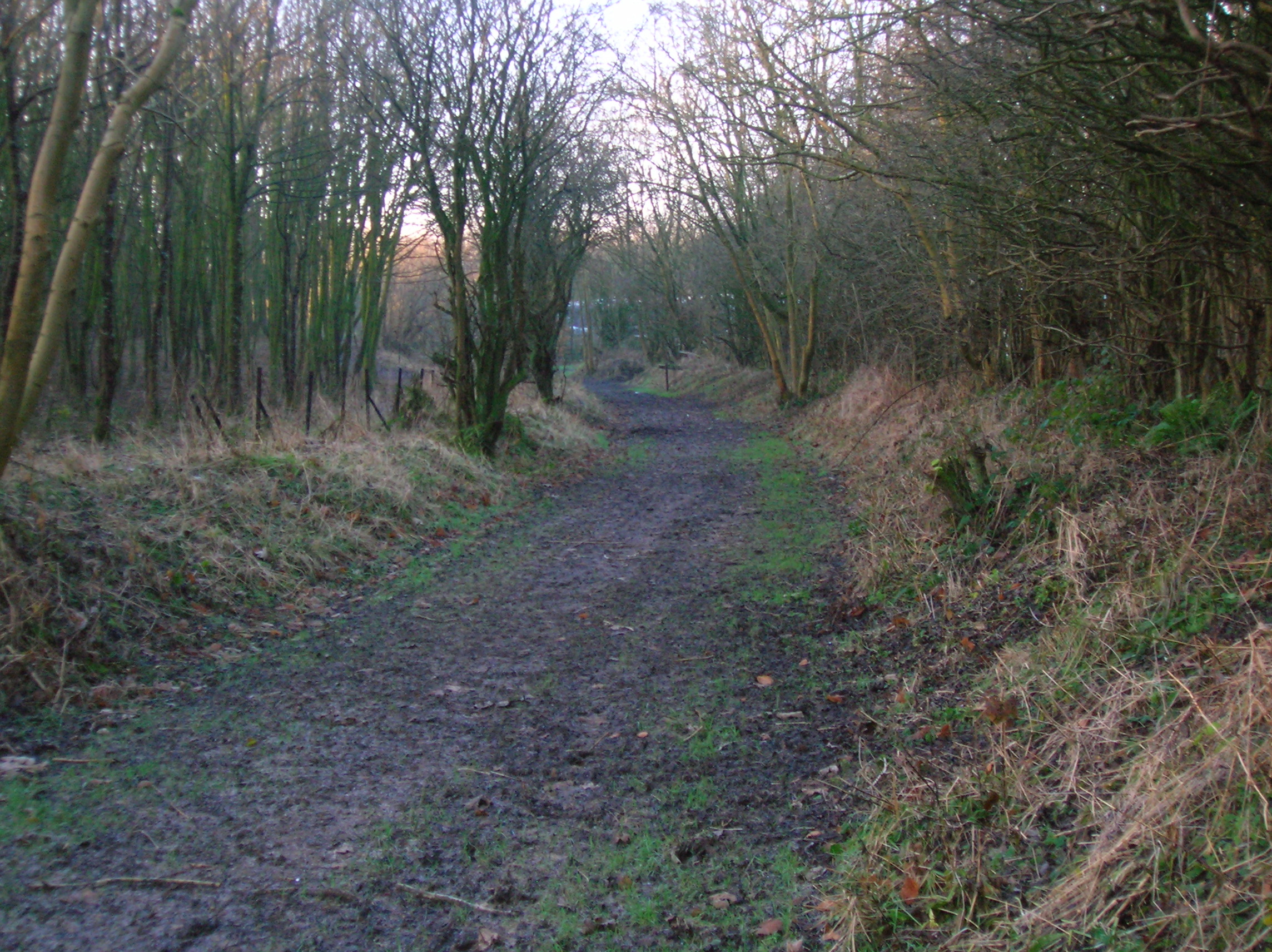 The trackbed of the old railway ayt Corsehill, Eglinton, North Ayrshire, Scotland.